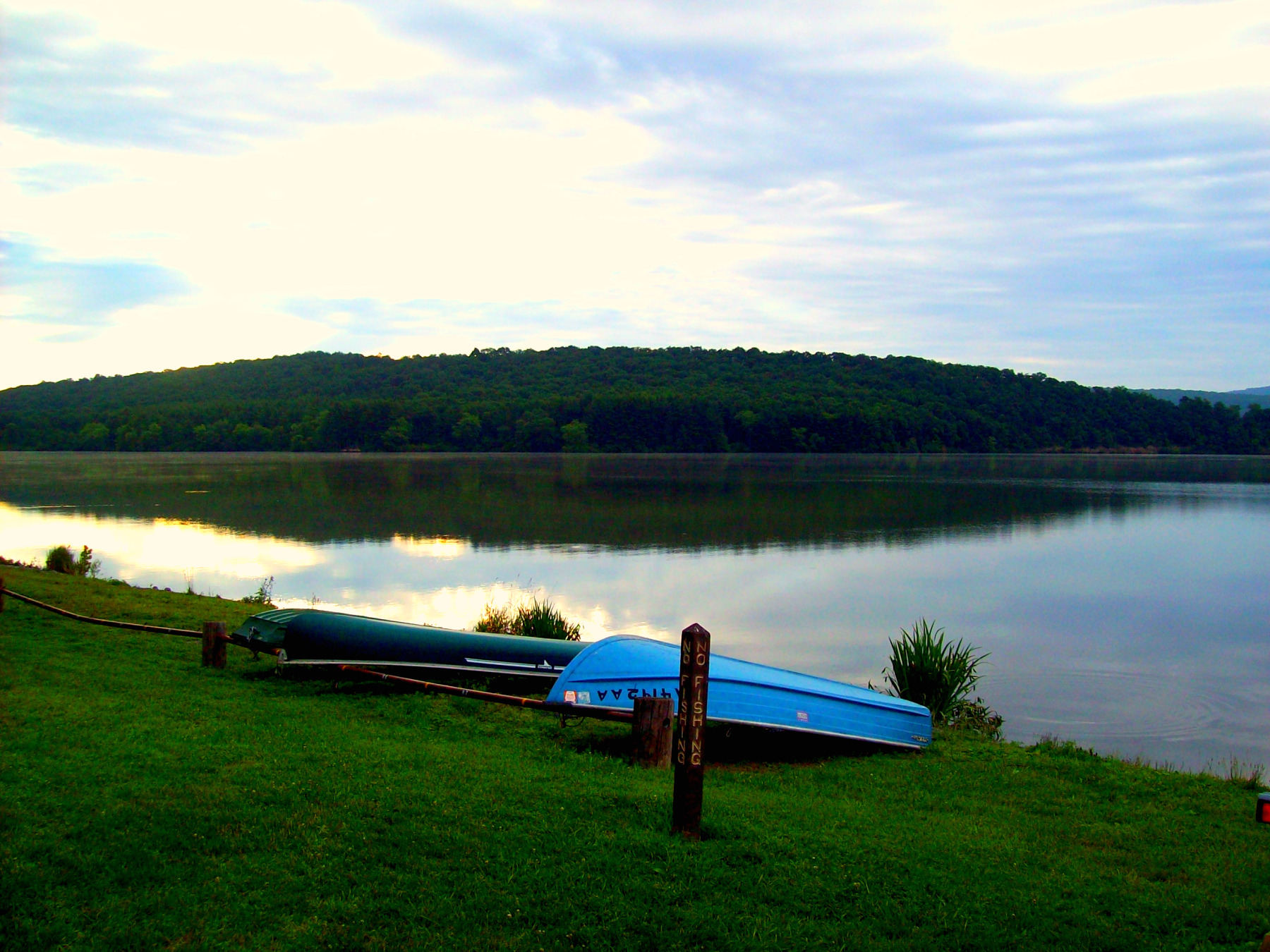 A lonely day at Shawnee State Park shows only the reflections in the water.